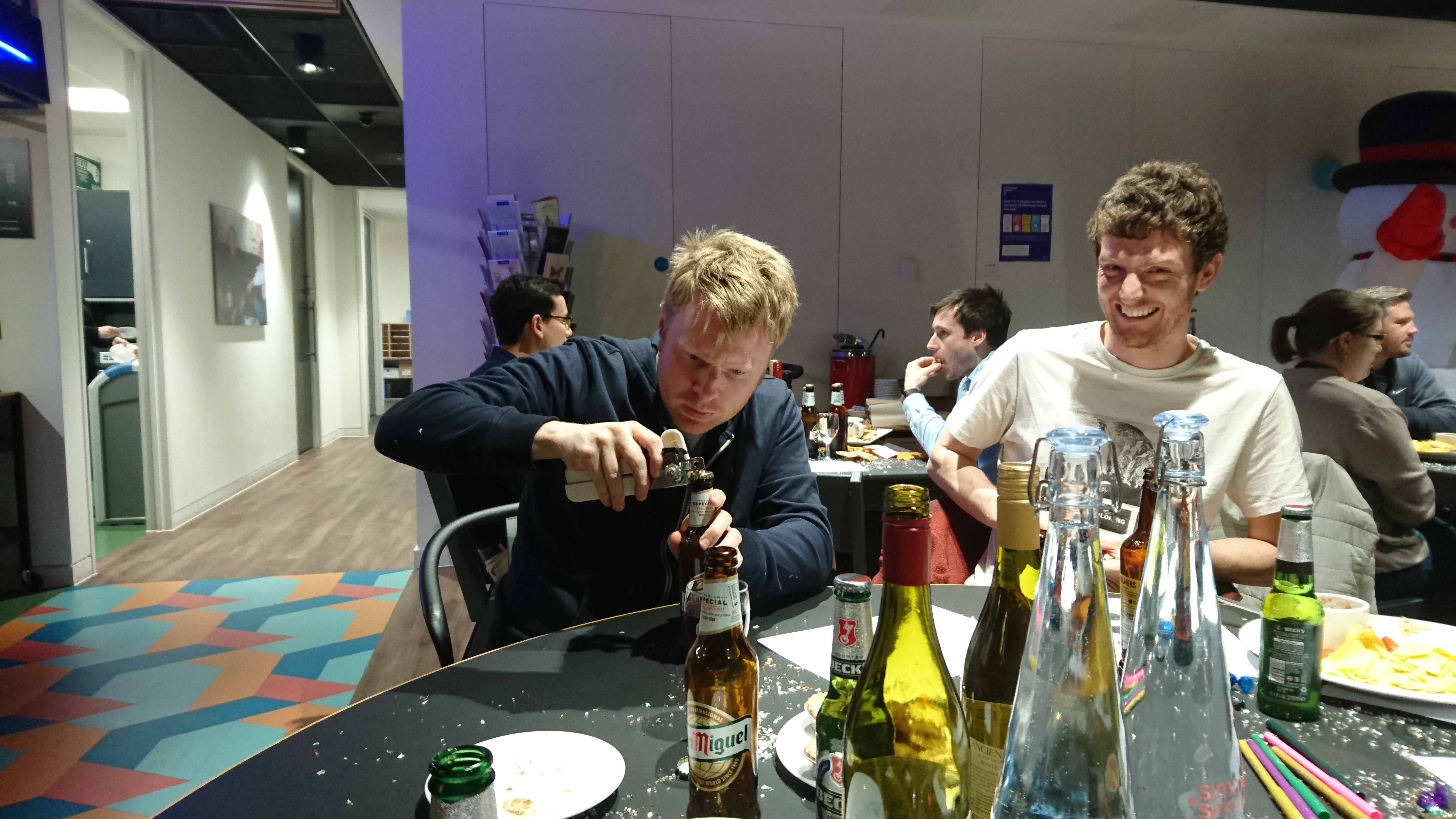 Visual Attention